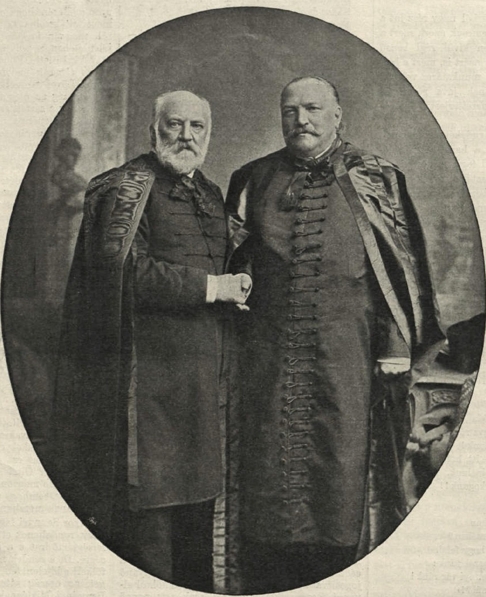 Domokos Szász and his brother the writer Károly Szász